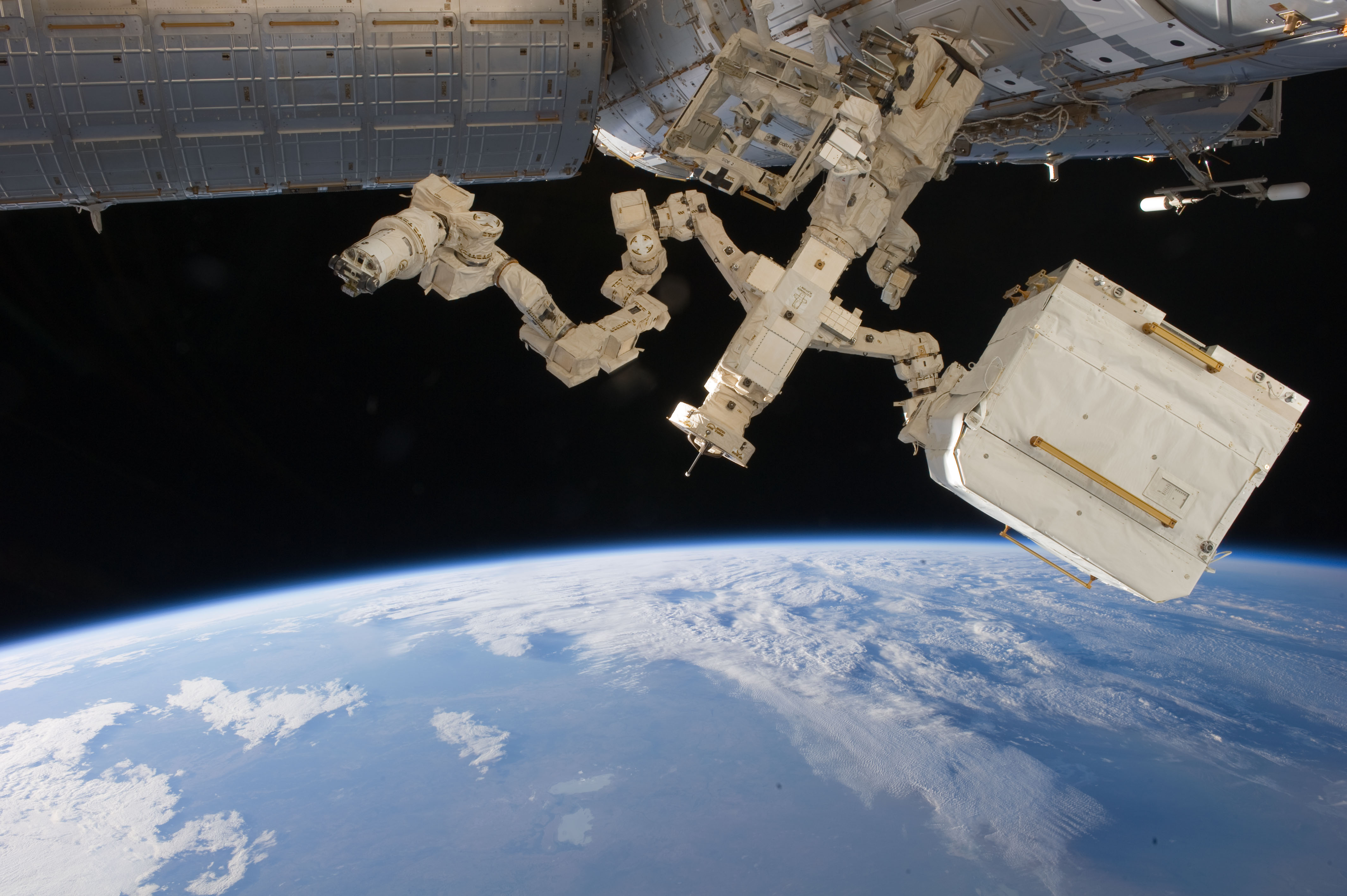 Backdropped by Earth's horizon and the blackness of space, the Canadian-built Dextre, also known as the Special Purpose Dextrous Manipulator (SPDM), is featured in this image photographed by an Expedition 27 crew member on the International Space Station.